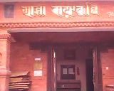 Asa Safu Kuthi is a free content library of Nepal Bhasa. It is one It is the largest library of Nepal Bhasa that even includes inscriptions and chronicles. It was established in Nepal Sambat 1116.